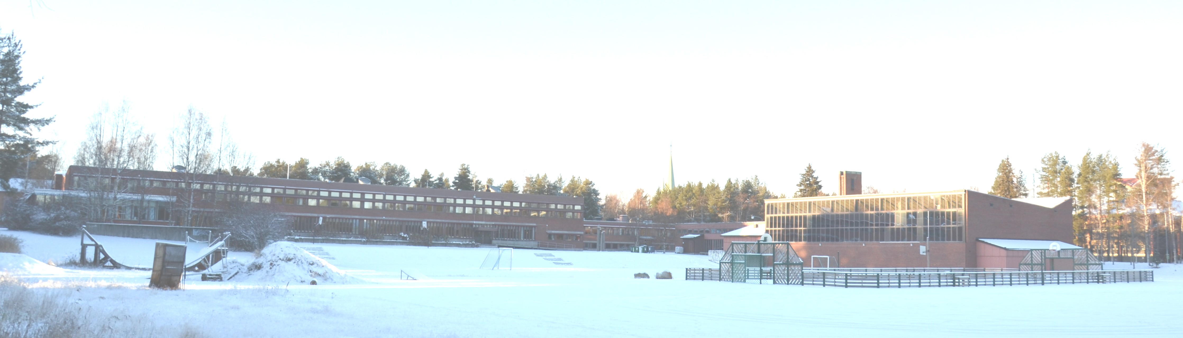 Östra skolan Jokkmokk